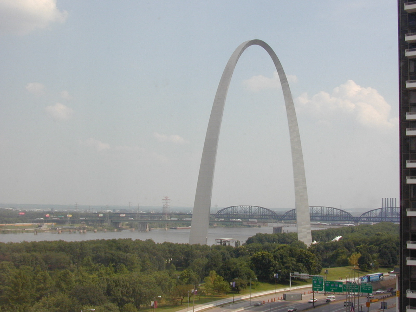 St. Louis: Gateway Arch Jan Kronsell, July 2004